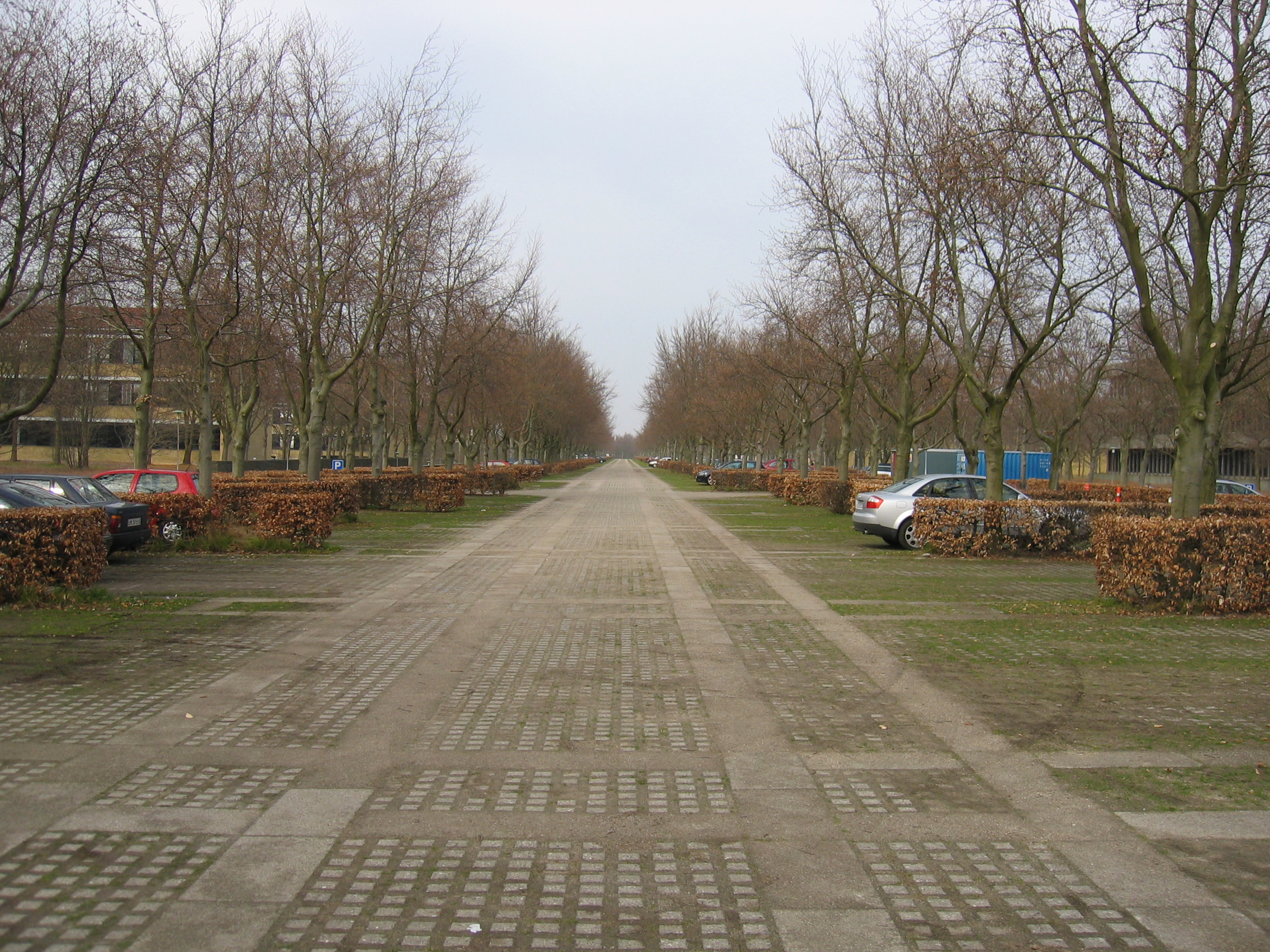 Technical University of Denmark, Kongens Lyngby, Denmark